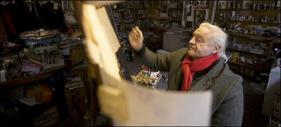 Photo of Ludovico De Luigi